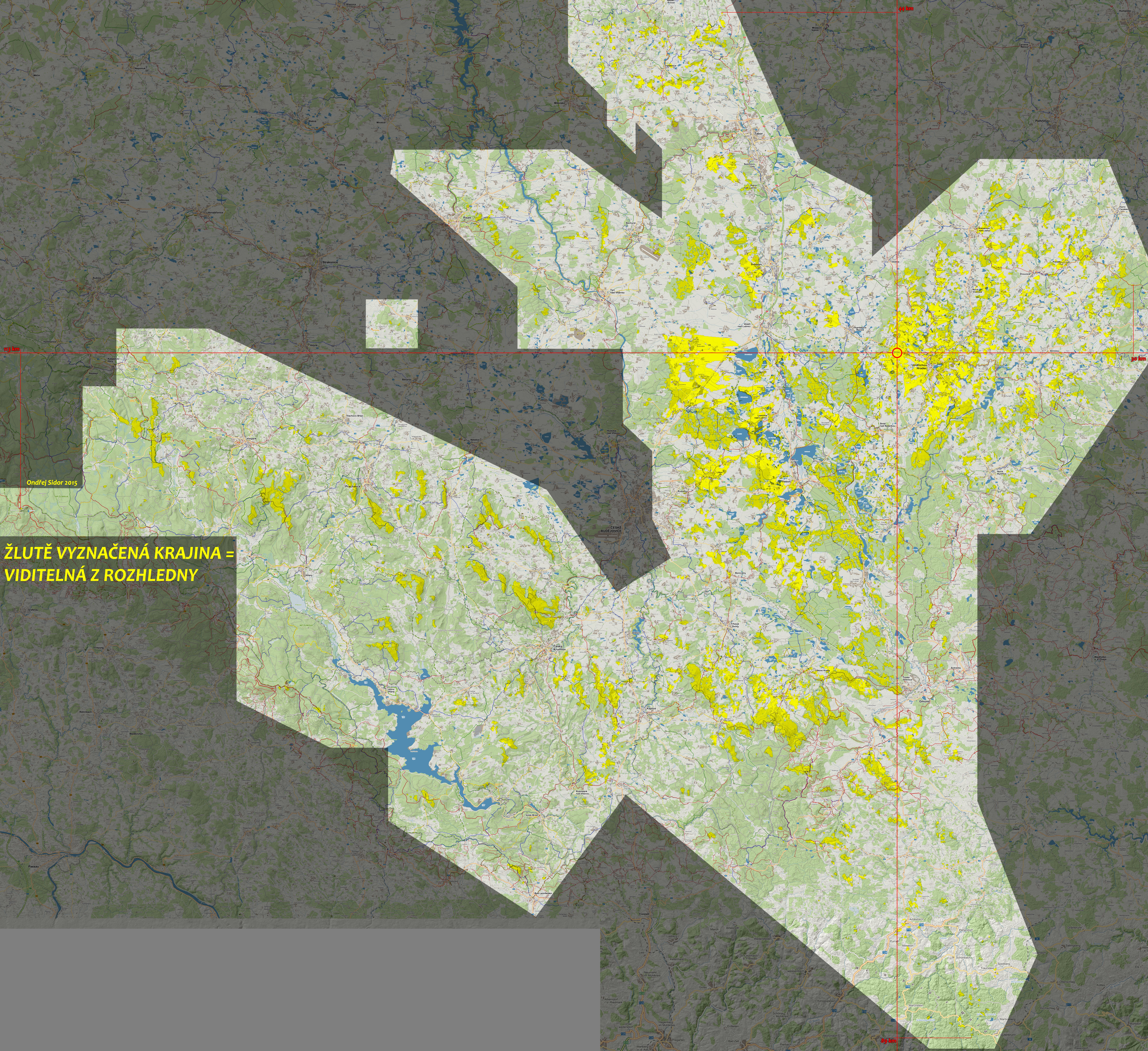 View from Debolin lookout tower - graphic map